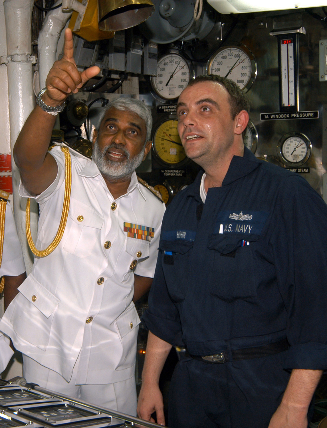 Machinist Mate 1st Class Michael A. Hohn shows the Commander of the Sri Lanka Navy, Vice Adm. D.W.K. Sandagiri, the different equipment a Sailor must monitor while on watch in the ships main engineering space aboard the command ship USS Blue Ridge (LCC 19). Blue Ridge, the Seventh Fleet flagship visited Colombo, Sri Lanka Feb. 20-21 and is currently underway on a scheduled deployment. U.S. Navy photo by Photographer's Mate Airman William J. Davis (RELEASED)